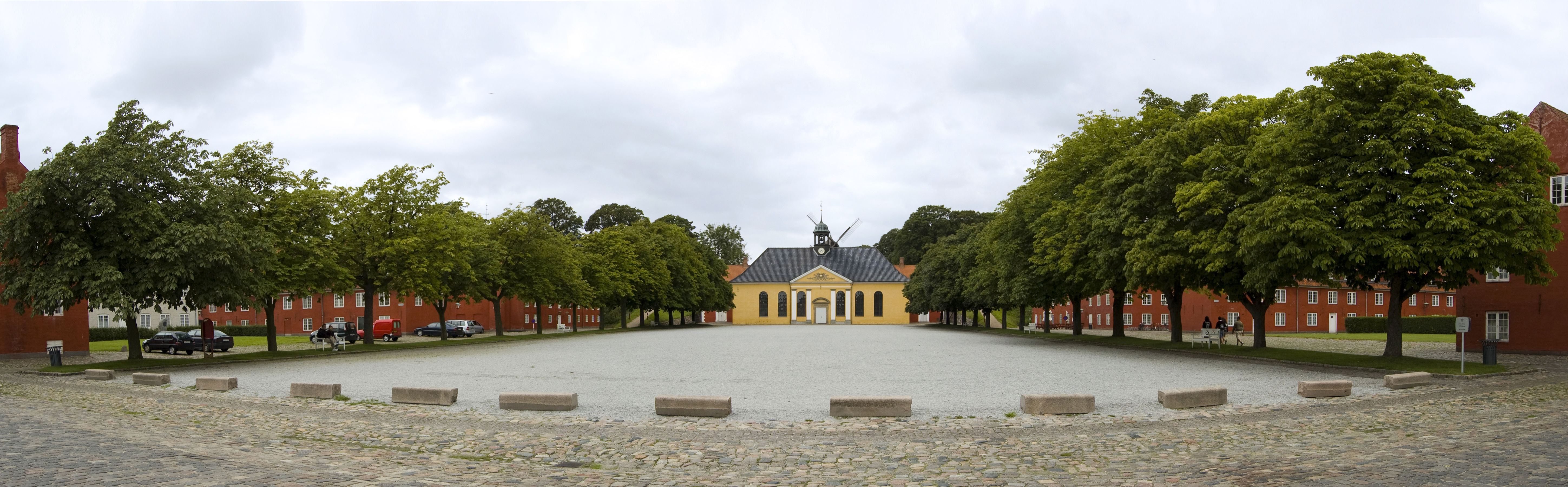 Kastelskirken (Citadel Church), the Citadel, Copenhagen, Denmark.